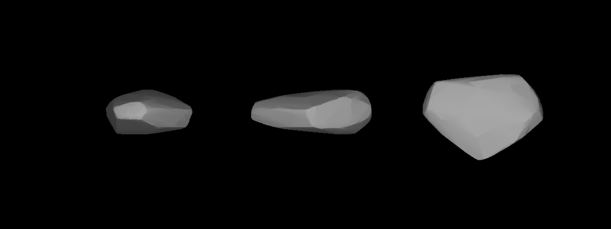 A three-dimensional model of 149 Medusa that was computed using light curve inversion techniques.